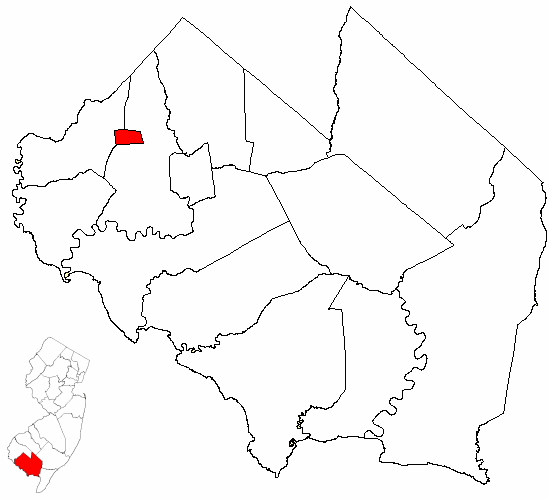 Map of Cumberland County highlighting Shiloh